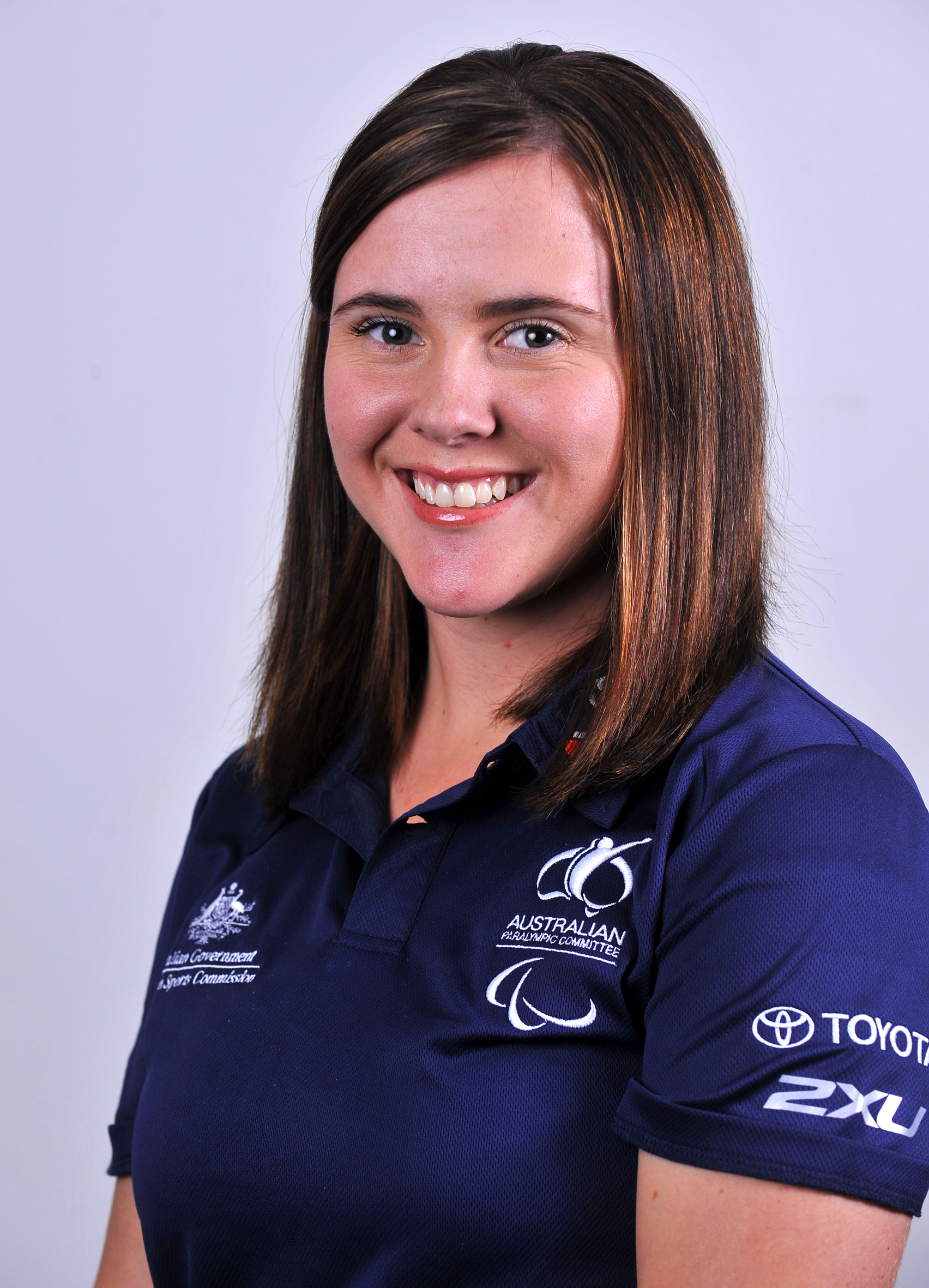 Portrait of Australian equestrian Hannah Dodd, 2012 Australian Paralympic (shadow) Team athlete